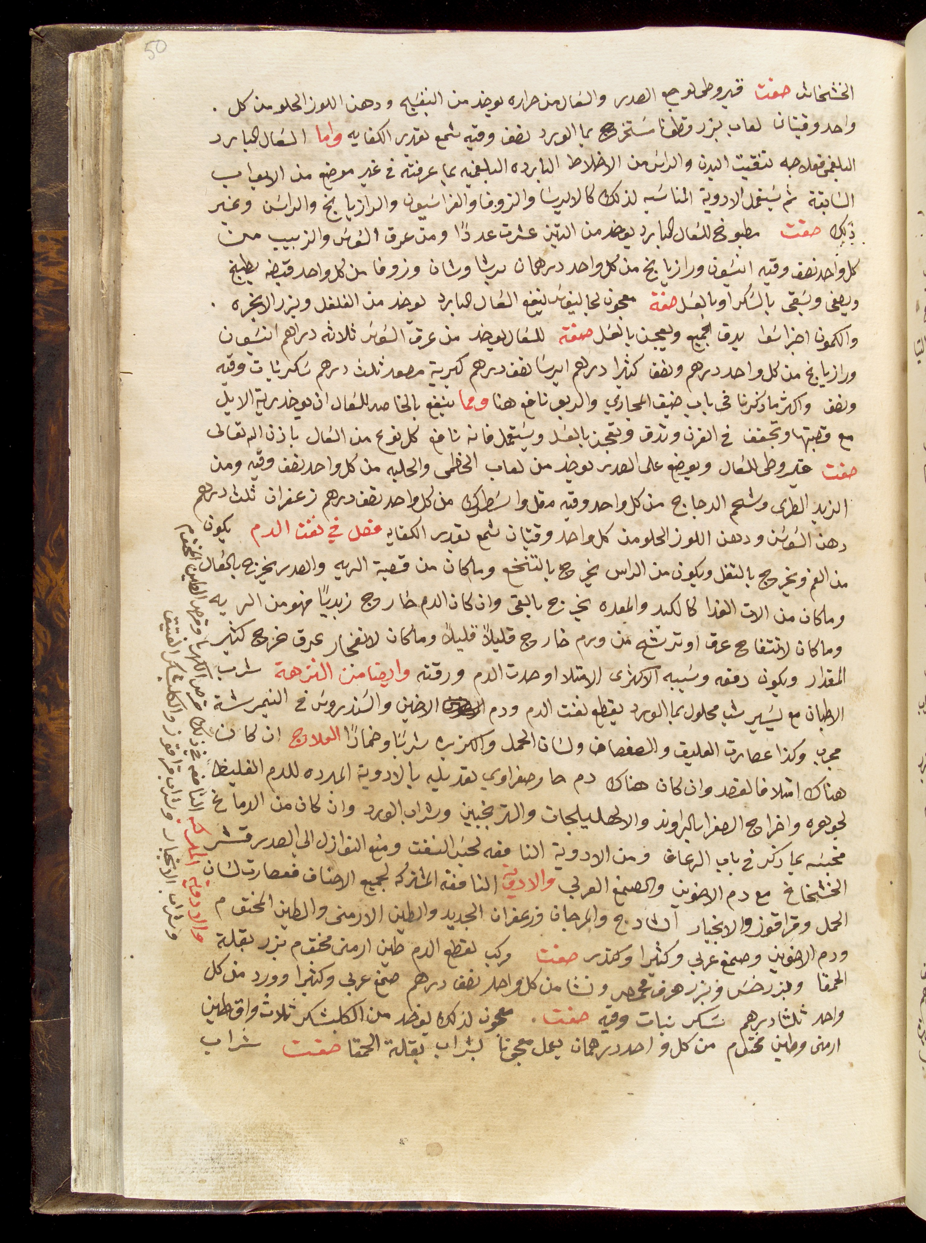 Page from an Arabic Text Asian Collection Keywords: Arabic